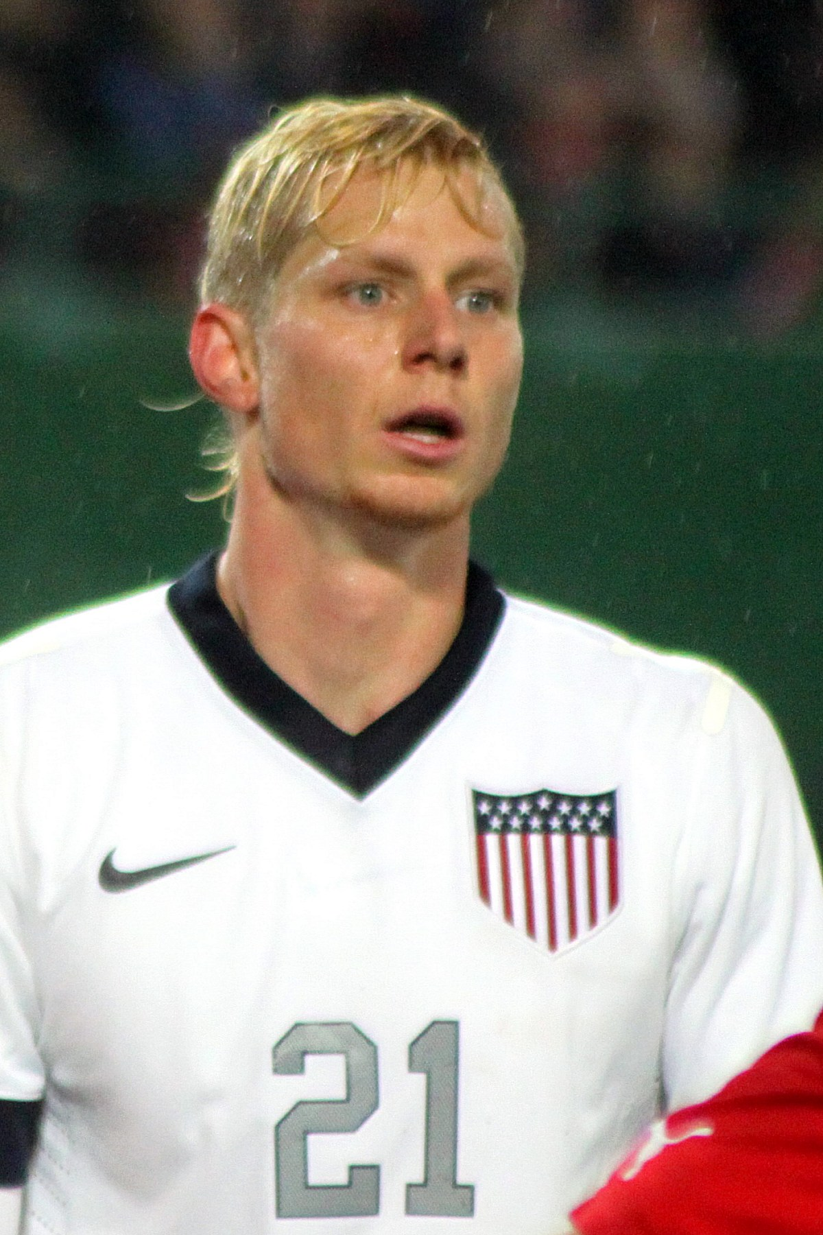 Friendly-match Austria vs. USA (1:0) in the Ernst-Happel-Stadion in Vienna at 2013-03-22. – The photo shows Brek Shea (USA).